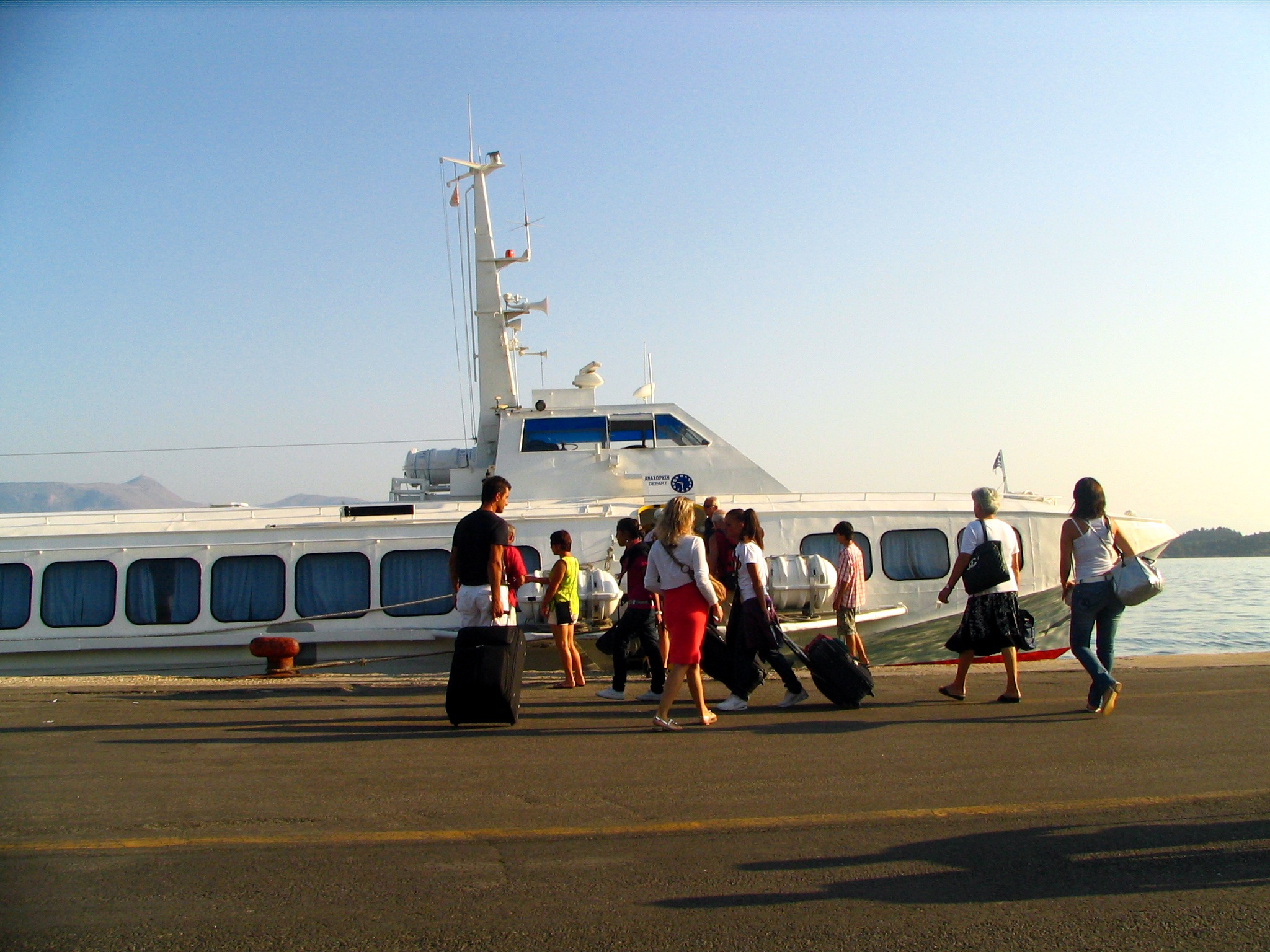 In Corfu, Greece, Tourists boarding the Ilida hydrofoil which takes them to the Island of Paxis